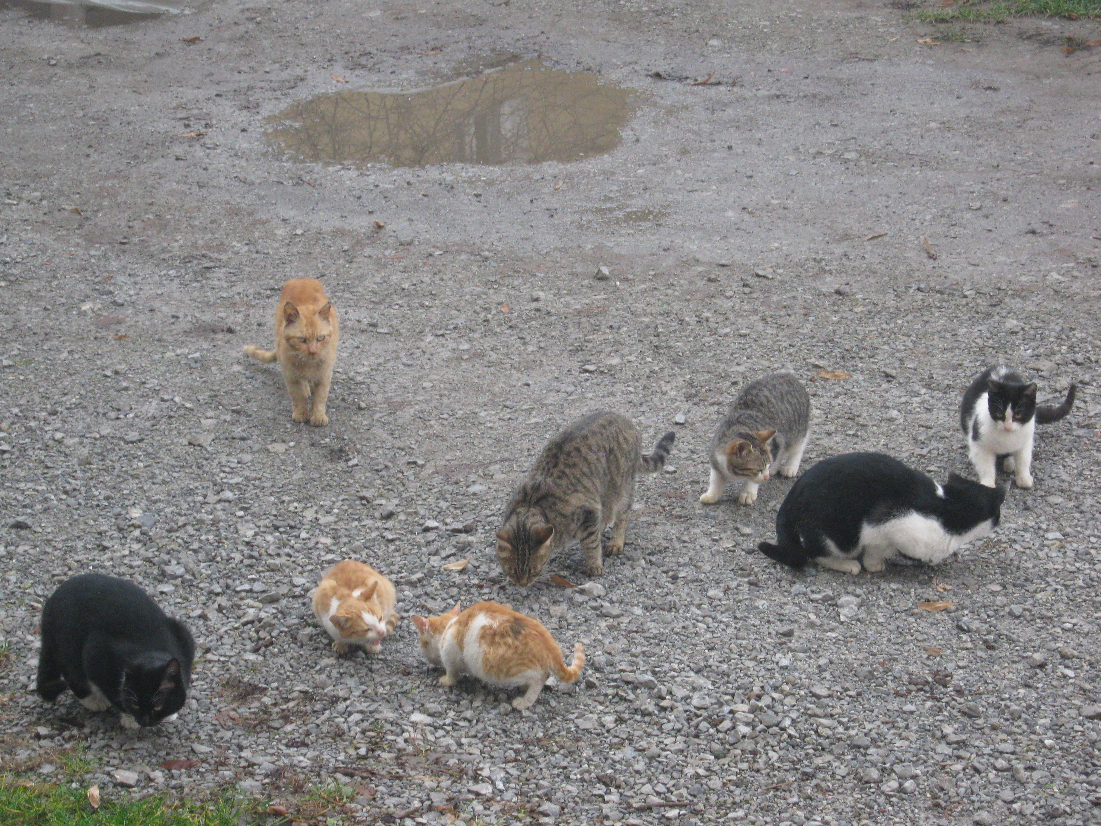 Herd (clowder) of Cats